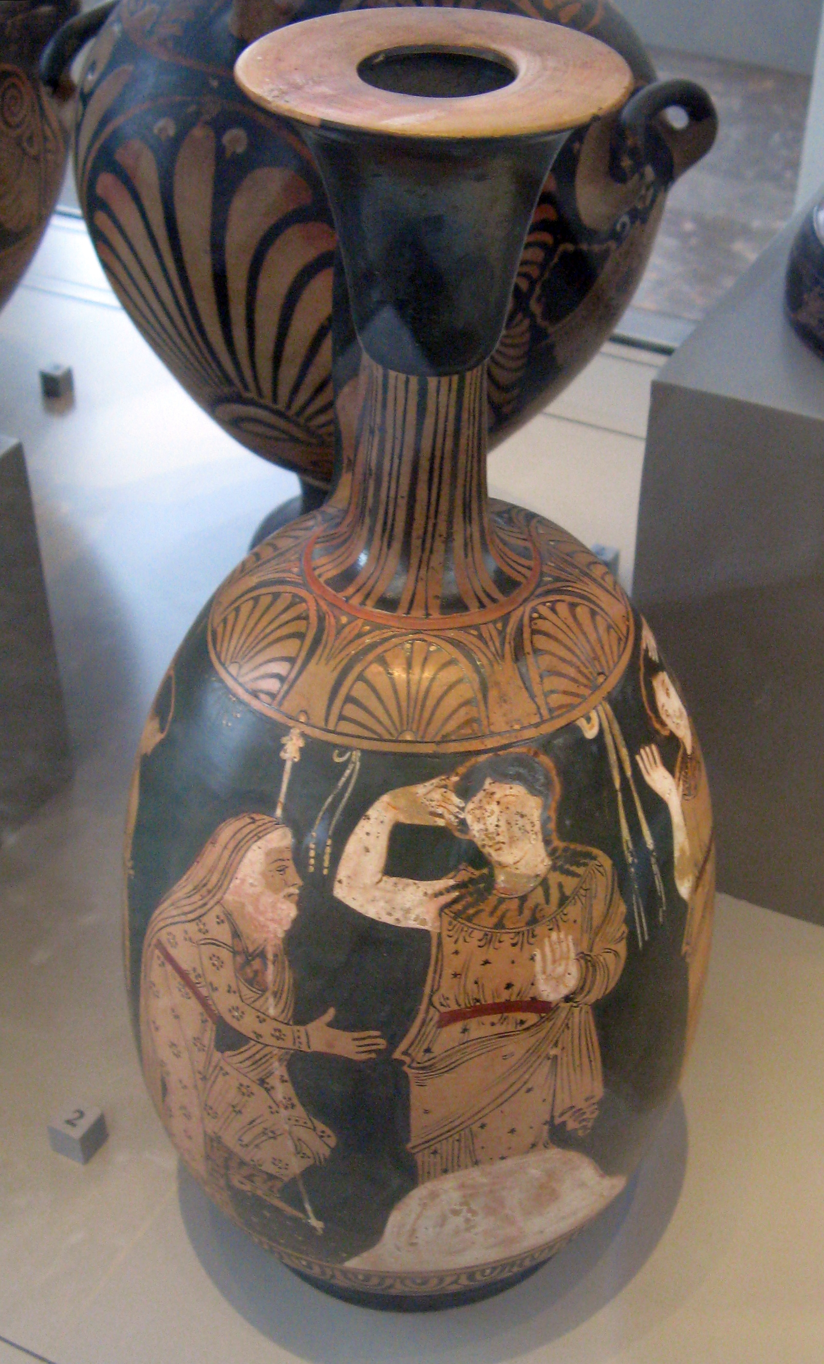 Paestan Lekythos depicting Niobe becoming stone; ca. 330 B.C.